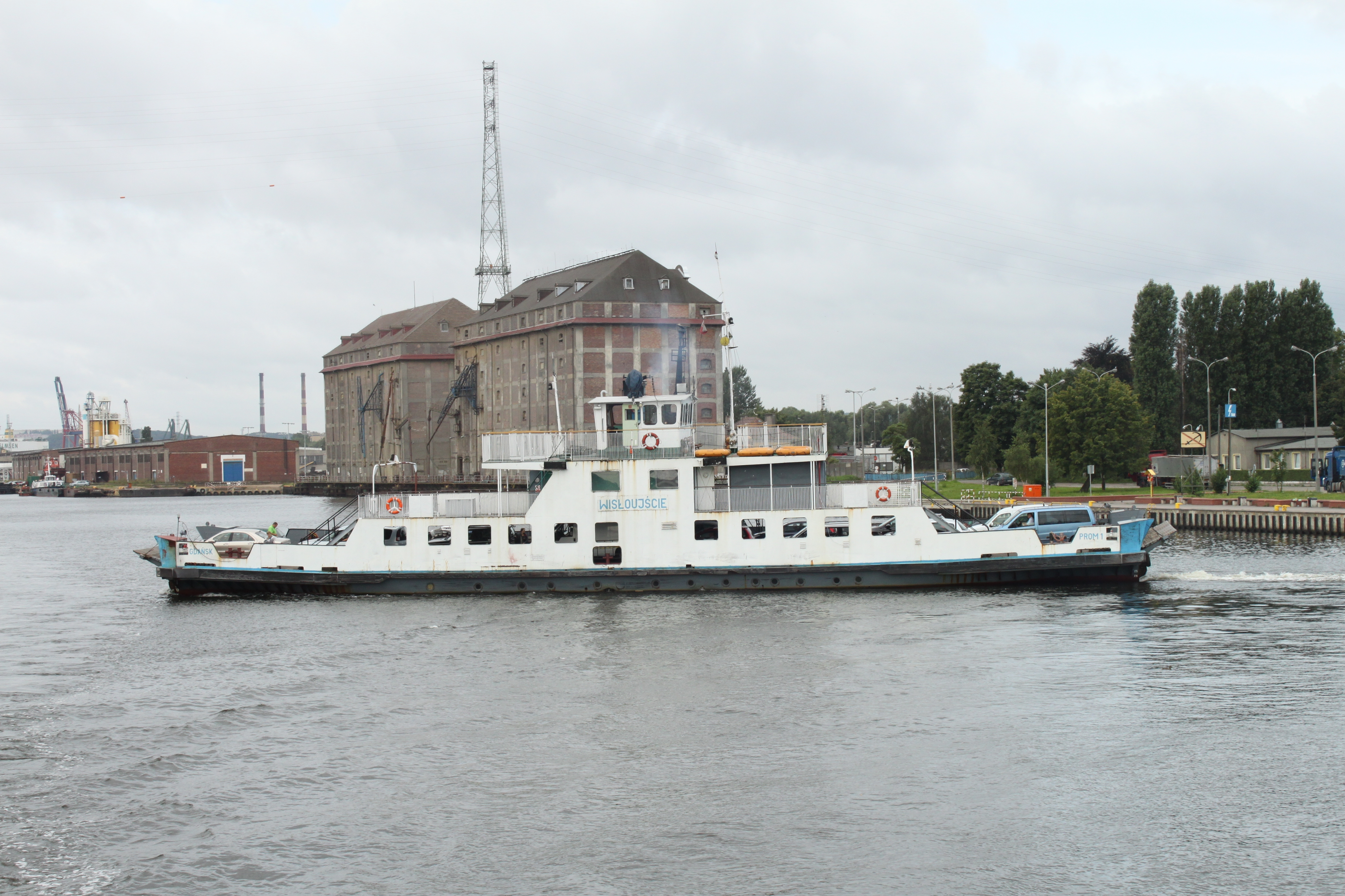 Ferry "Wisłoujście", Gdańsk, Poland